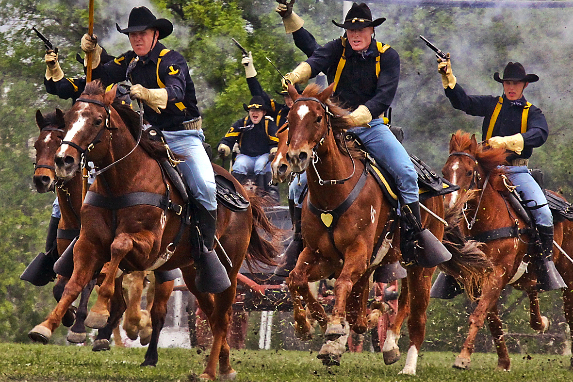 Gunpowder and dirt fly as the 1st Cavalry Division horse detachment make their traditional 'cavalry charge' to conclude the 1st Air Cavalry Brigade's color casing ceremony, March 25, at Cooper Field, Fort Hood, Texas. See more at Army.mil First Cavalry Division's Horse Cavalry Detachment Web site